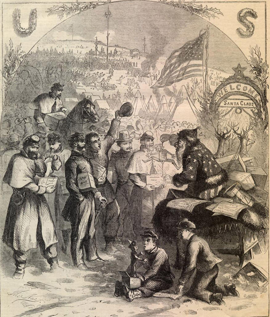 January 3, 1863 cover of Harper's Weekly, one of the first depictions of Santa Claus